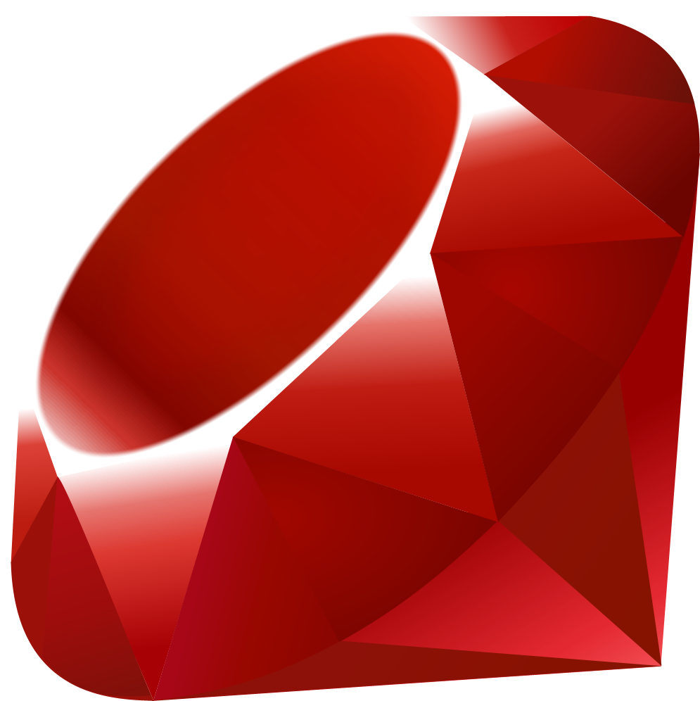 Official Ruby logo